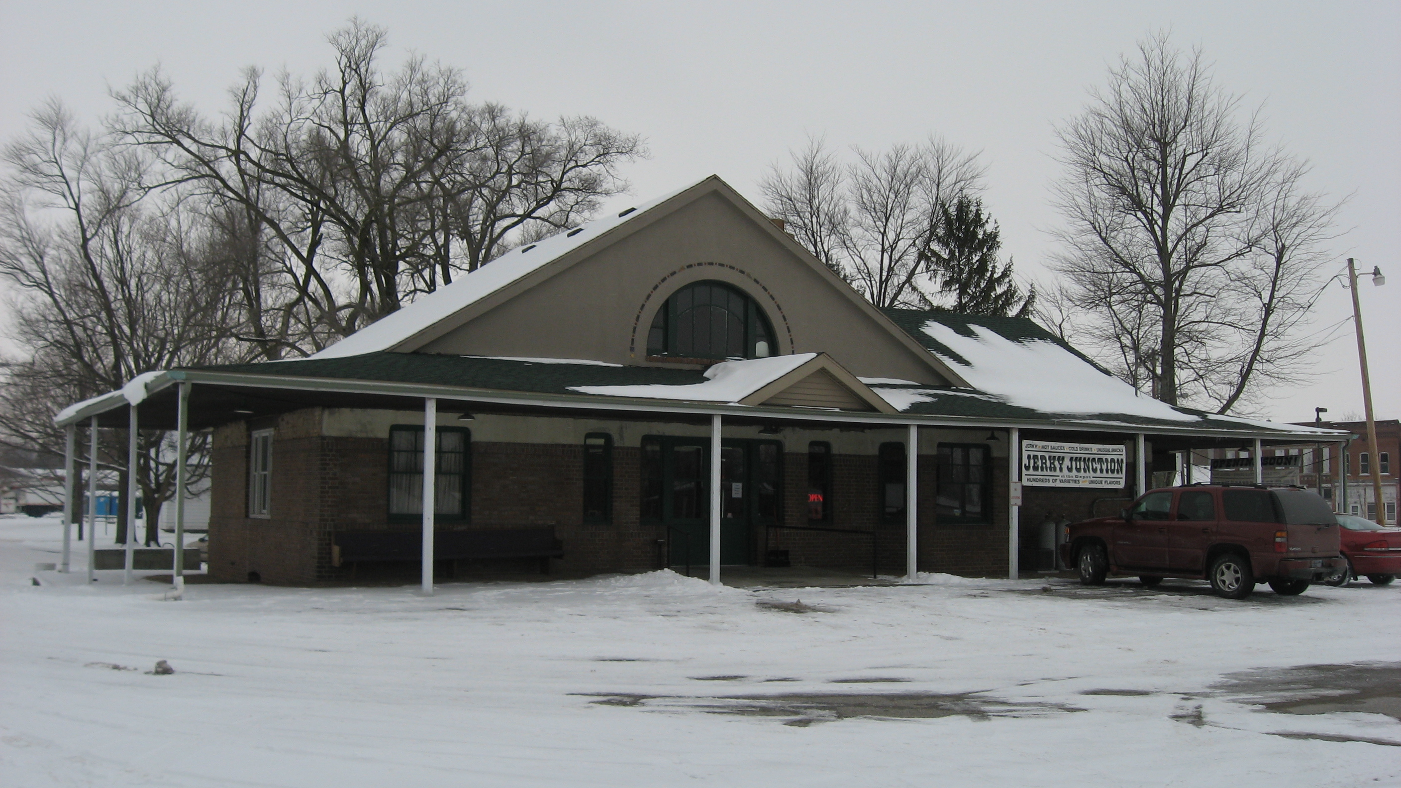 Front of the Converse Depot, located at 203 E. Railroad Street in the Miami County portion of Converse, Indiana, United States. Built in 1912, it is listed on the National Register of Historic Places.